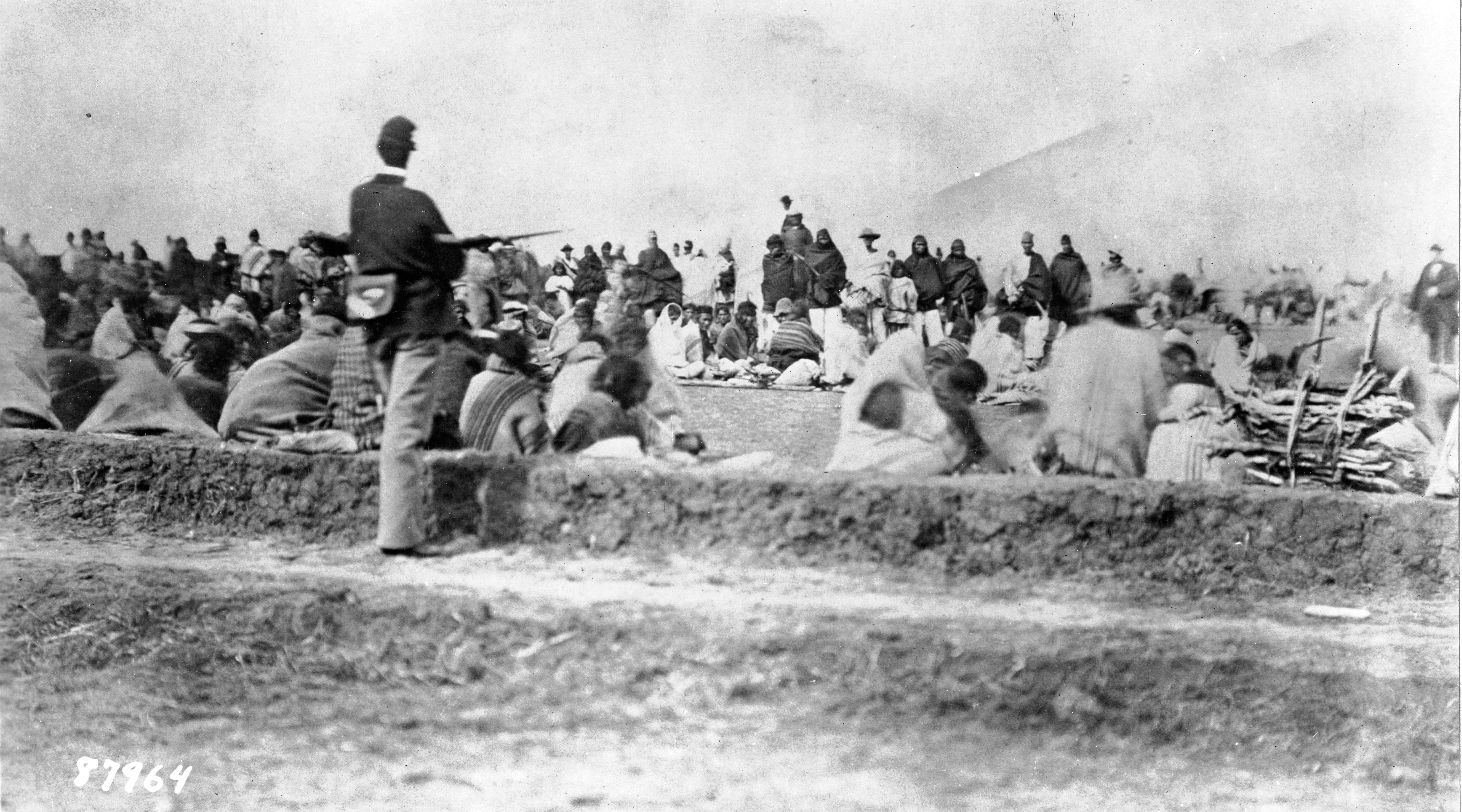 Navajos under guard at Fort Sumner, ca. 1864.